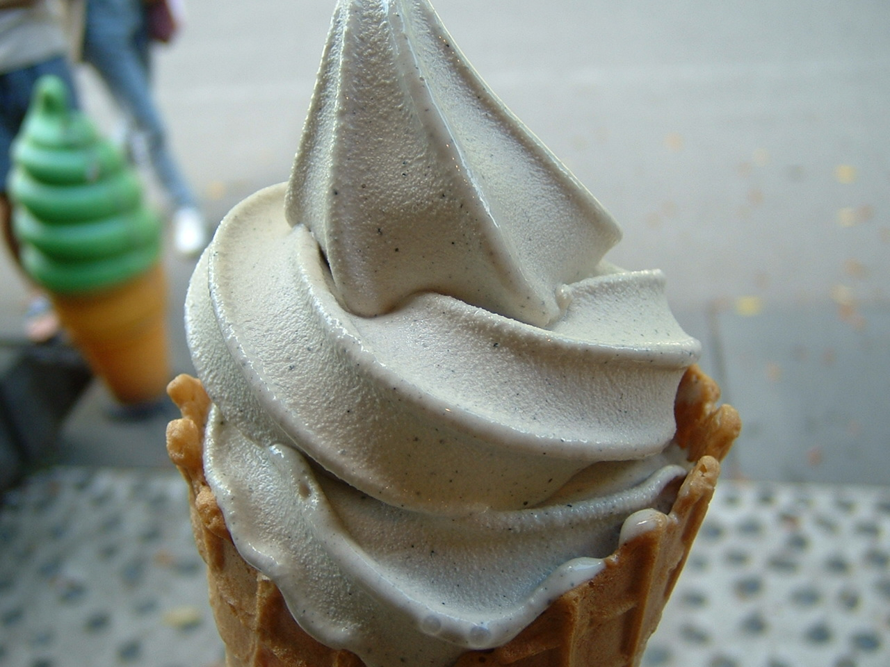 Black sesame soft ice cream. in Kakunodate, Akita, Japan.